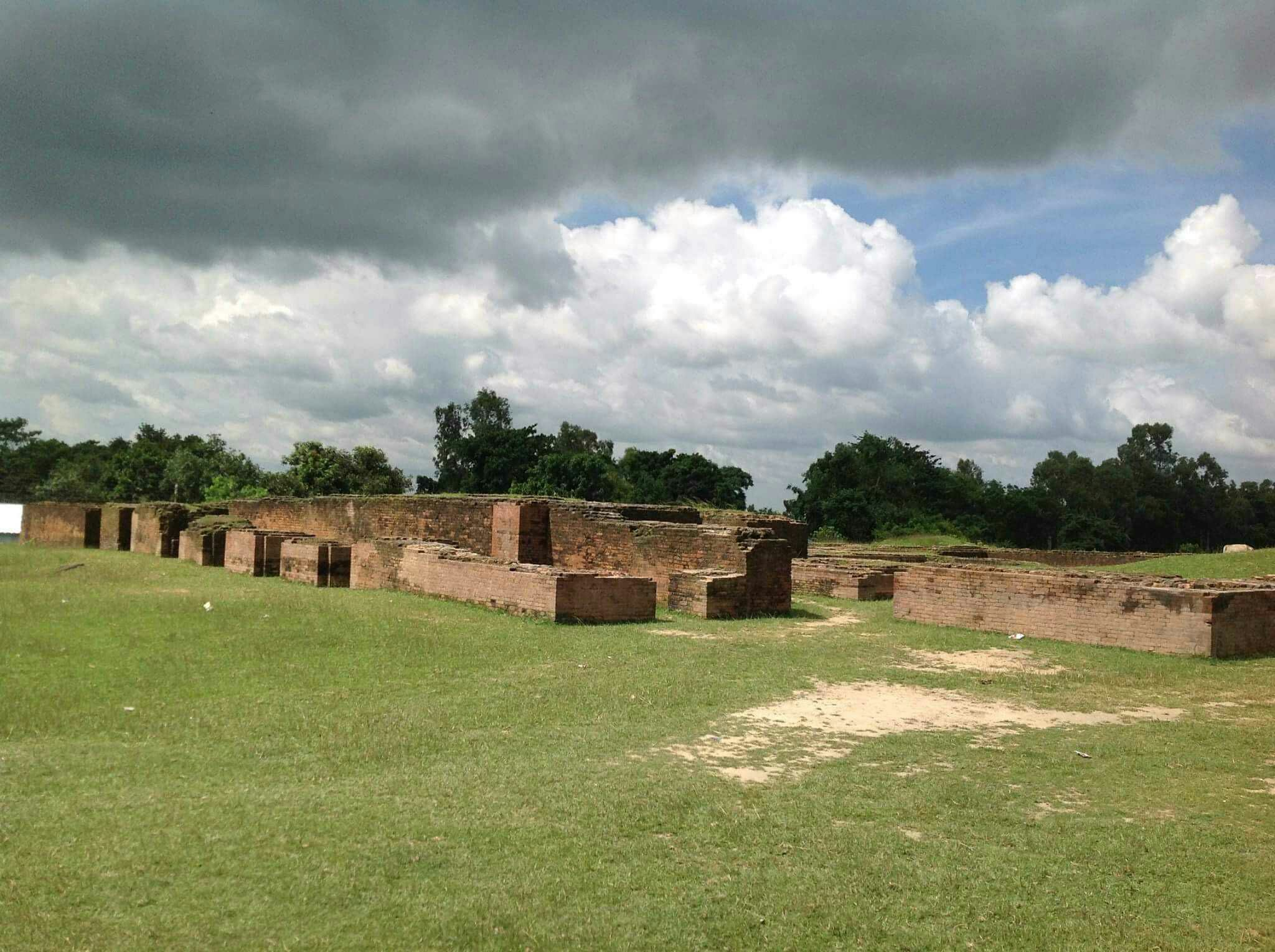 Bangarh (Devkot) at Gangarampur is the historical place